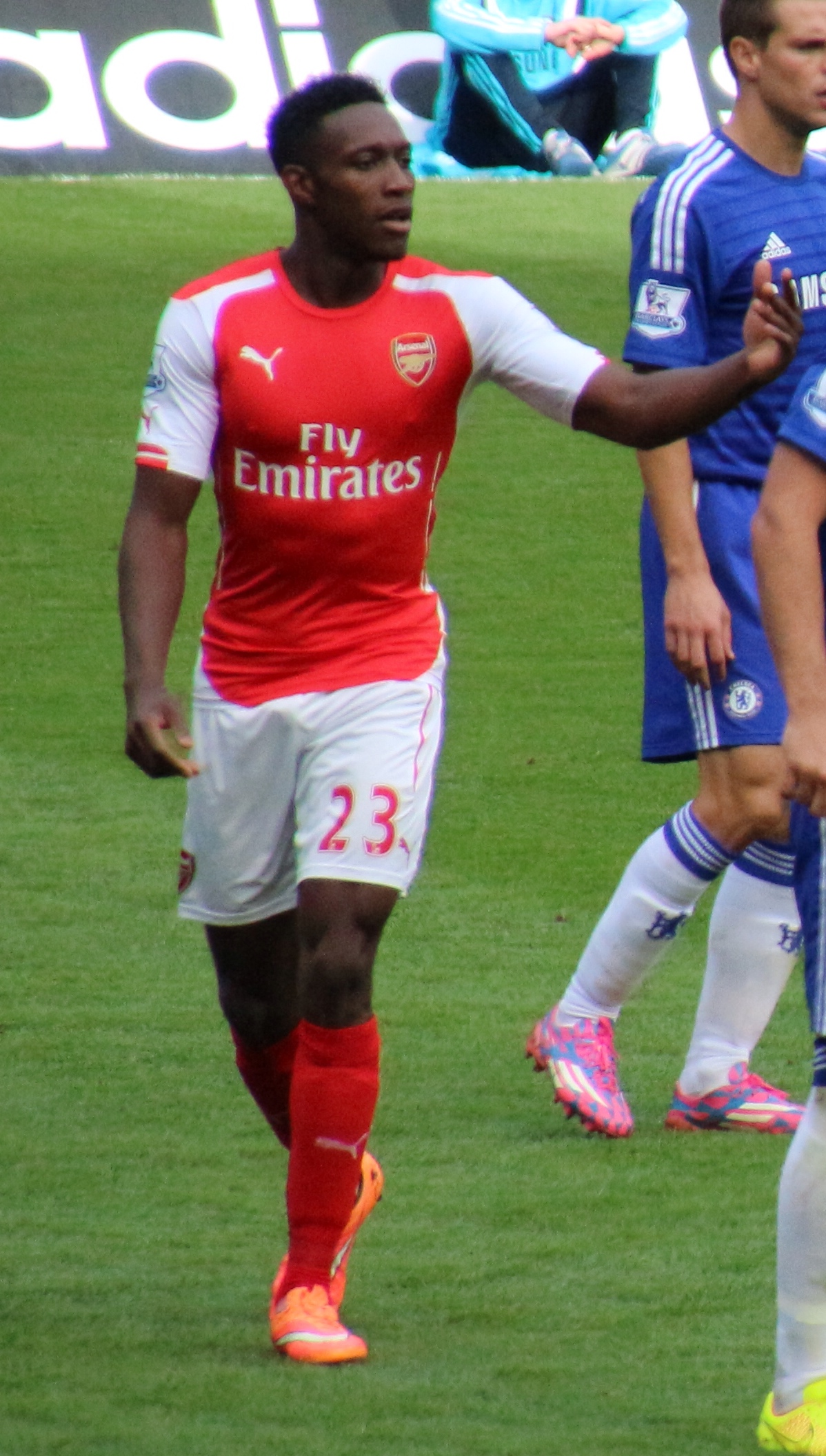 Premier League match between Chelsea and Arsenal at Stamford Bridge on 5 October 2014.